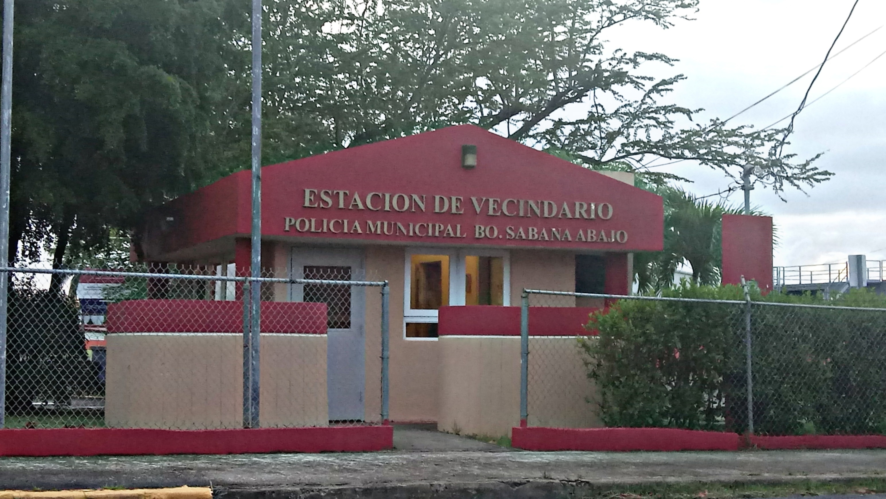 Municipal police, neighborhood station in Sabana Abajo barrio in Carolina, Puerto Rico